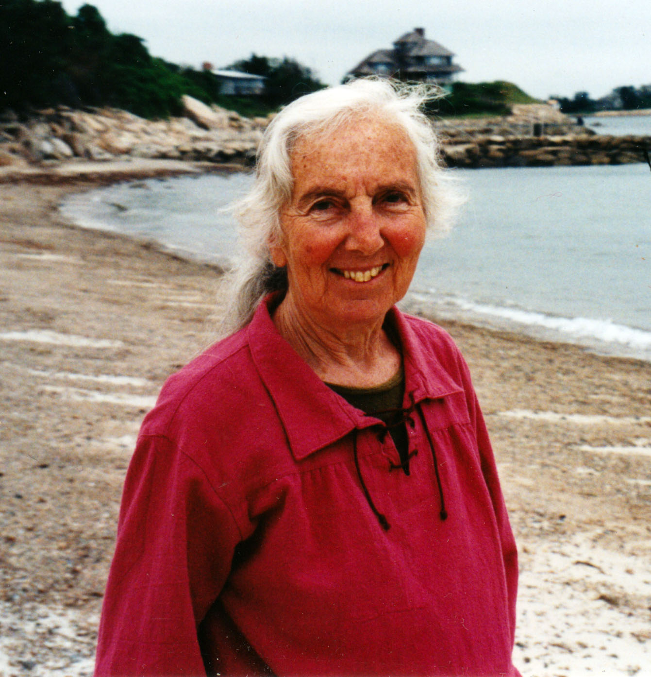 Ruth Hubbard Wald, on the beach in Woods Hole, MA